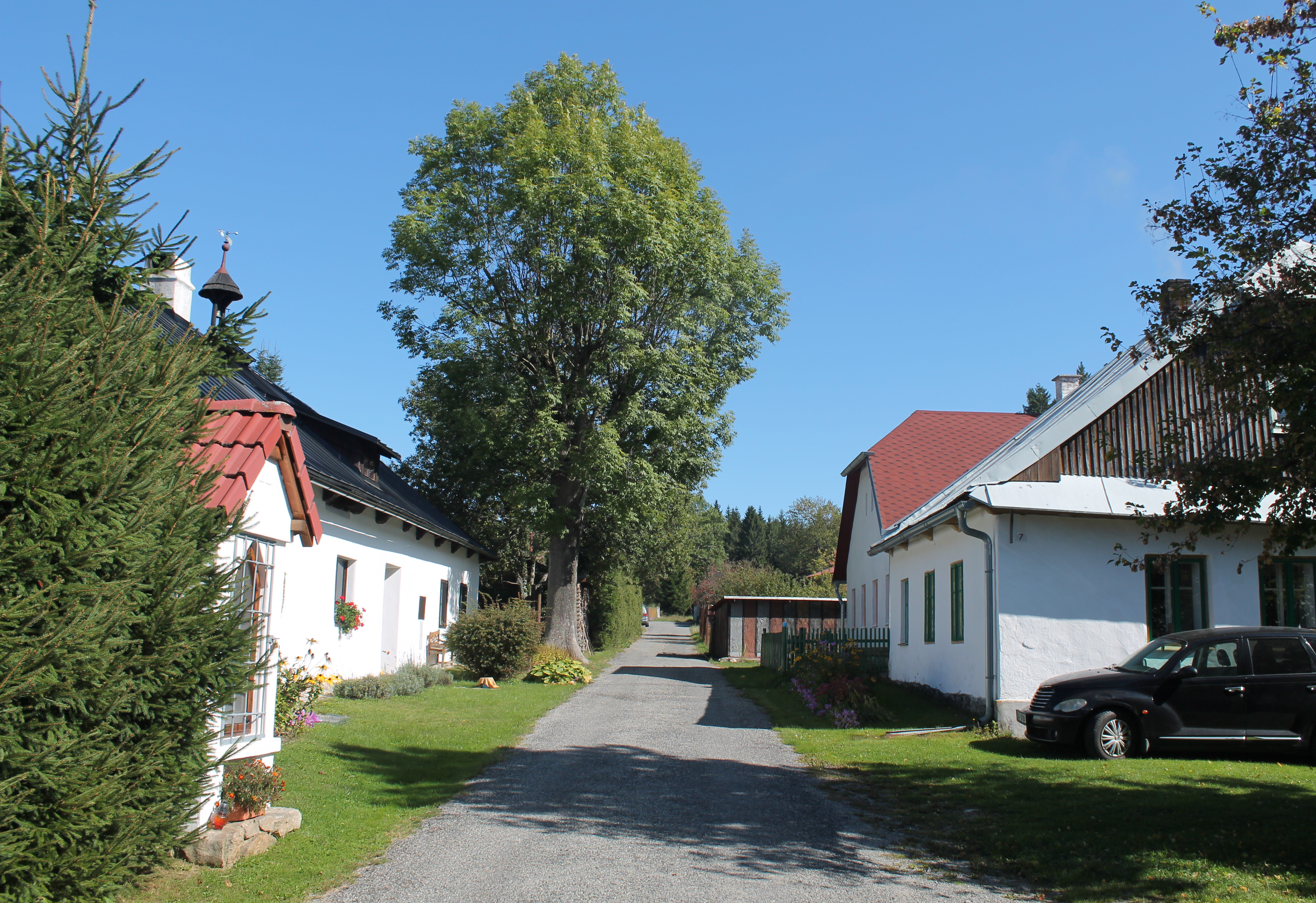 Nová Huť, Vojnův Městec, Žďár nad Sázavou District, Czech Republic